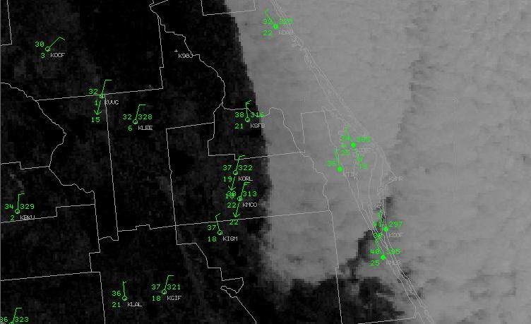 Satellite image from Kennedy Space Center in Florida showing rare snowfall in Florida